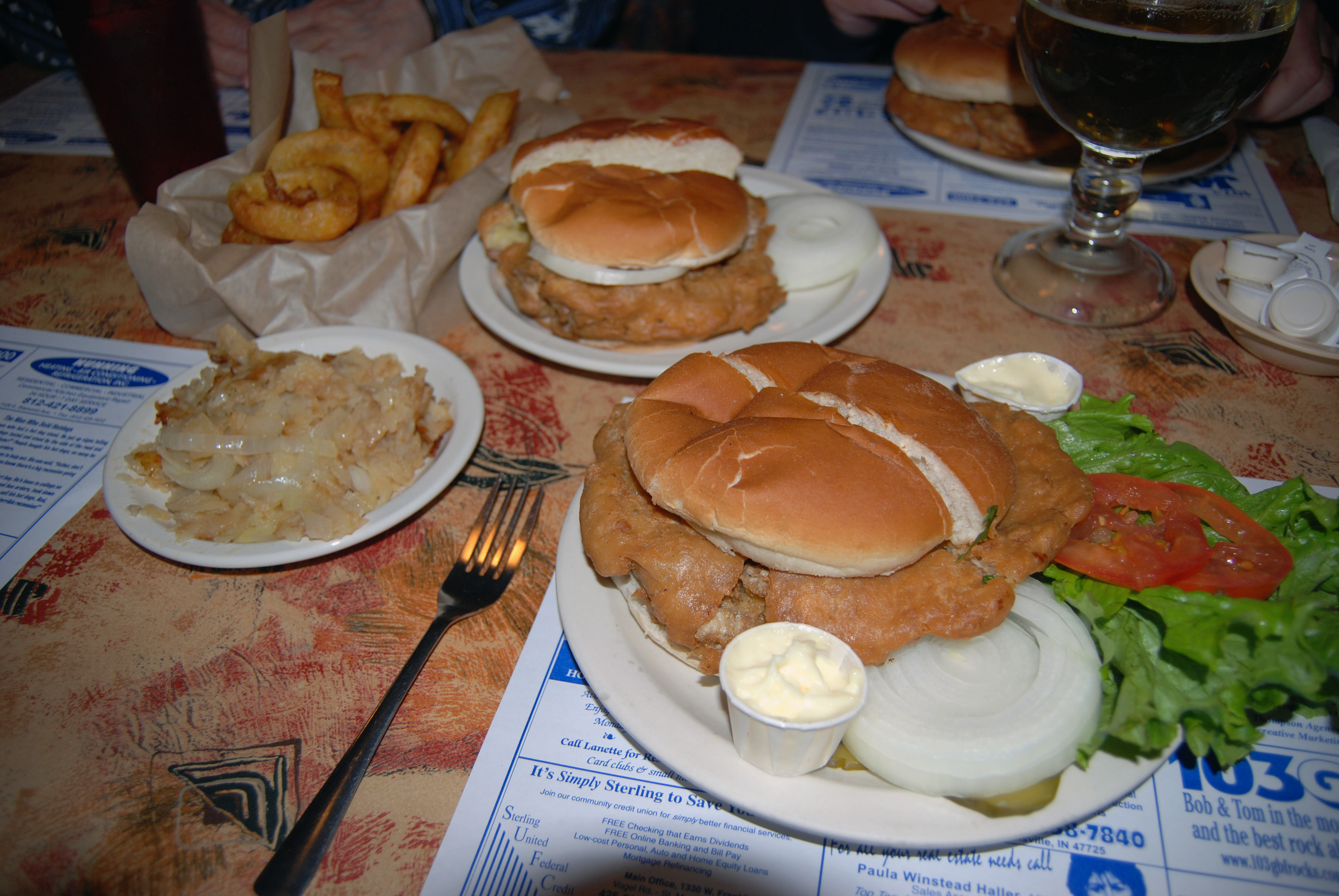 Here's what they look like